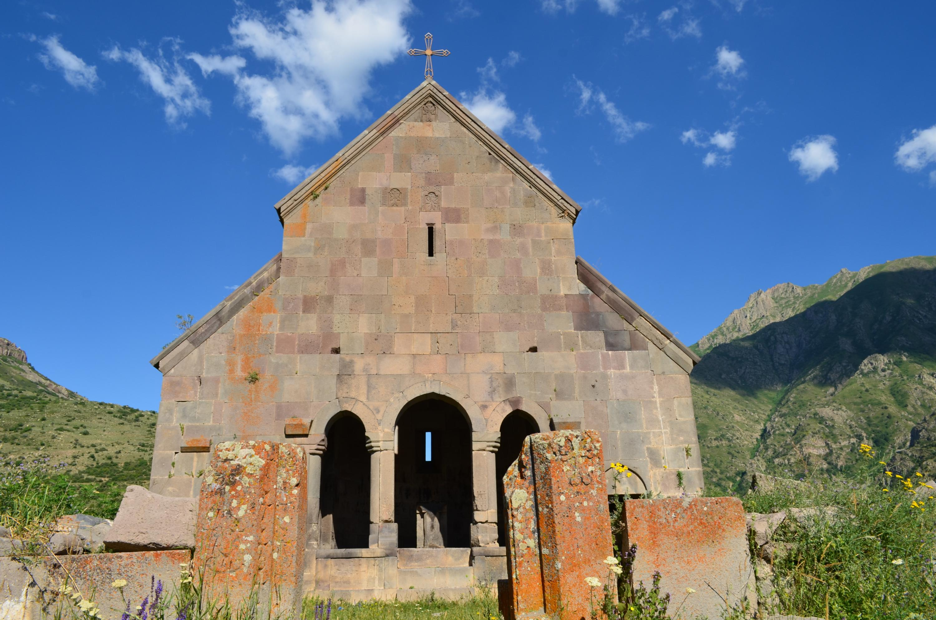 St. Stepanos Church in Yeghegis, XIV century 21/11